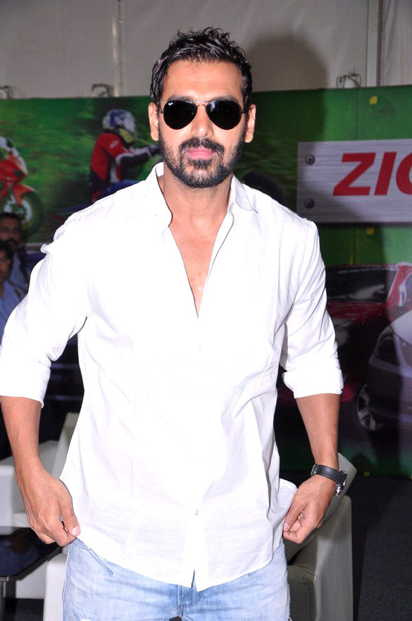 John Abraham at the Mumbai International Motor Show 2013